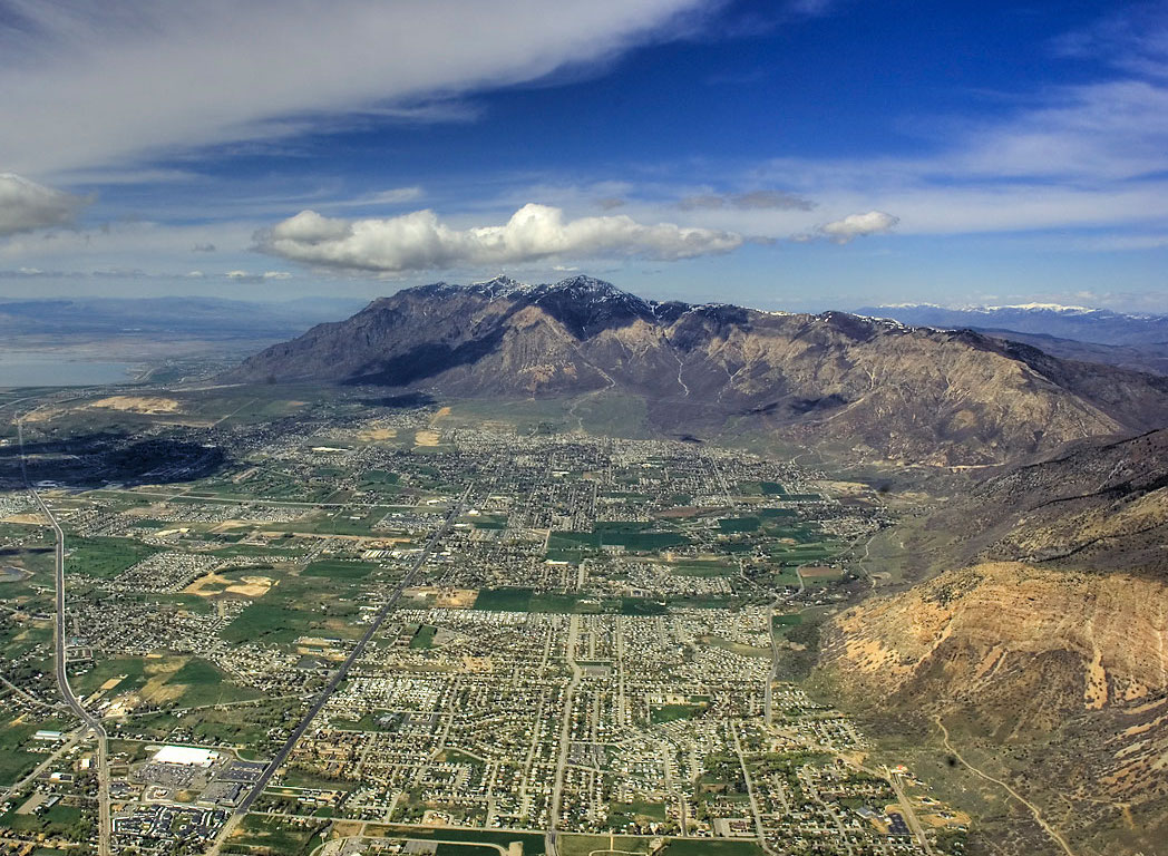 Aerial photography featuring Mount Ben Lomond to the north of the city of Ogden, Utah; at horizon right, snow on the Bear River Range.